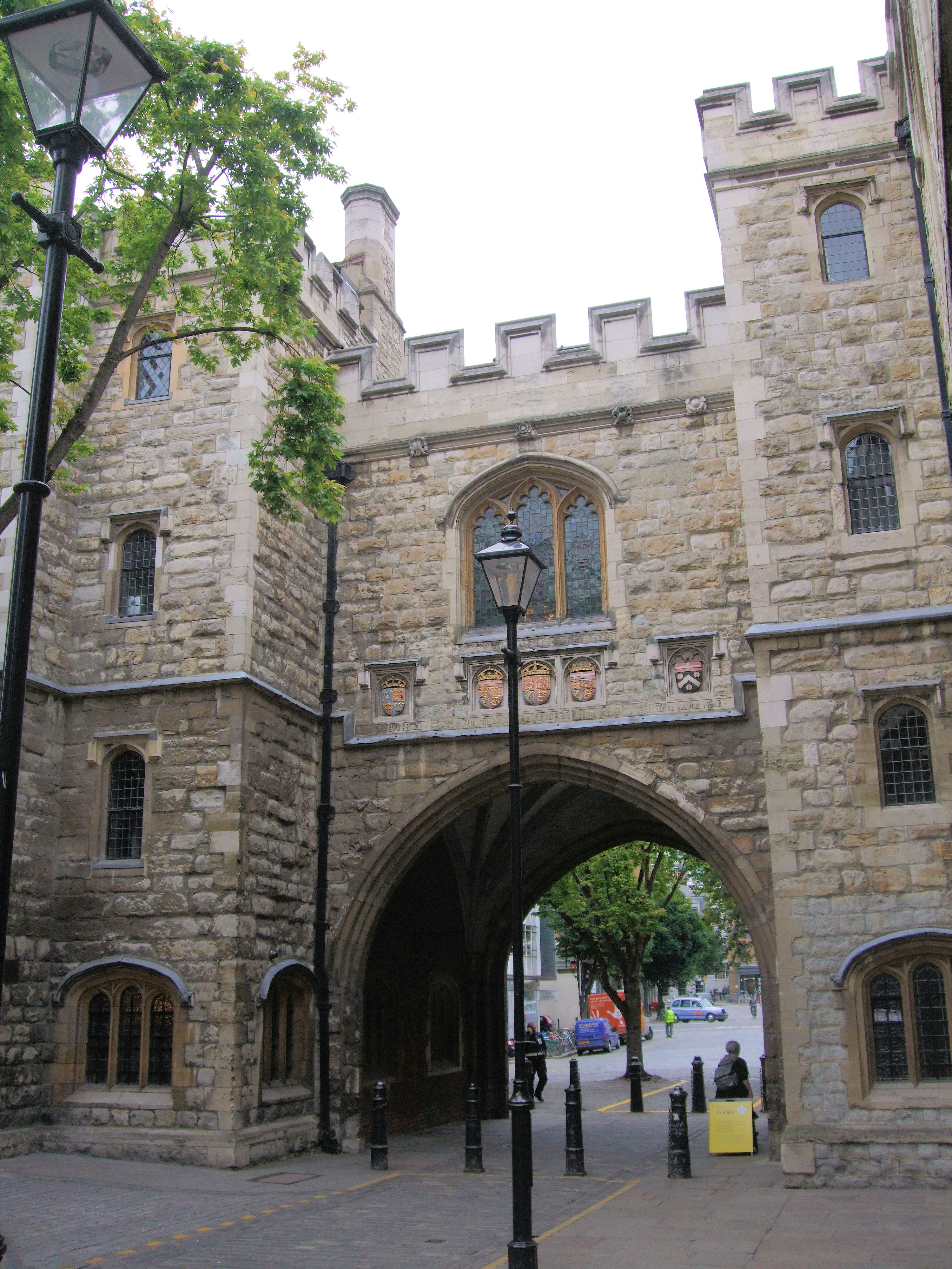 St John's Gate is one of the few tangible remains from Clerkenwell's monastic past, it was built in 1504 by Prior Thomas Docwra as the south entrance to the inner precinct of the Priory of the Knights of Saint John - the Knights Hospitallers.